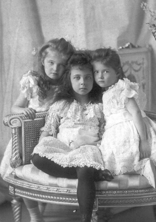 Olga and Tatiana Nikolaevna of Russia with her cousin Elizabeth of Hesse